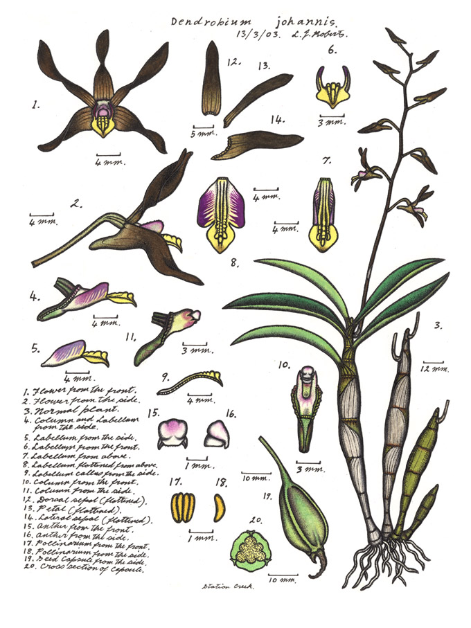 This is one of a series by Lewis Roberts